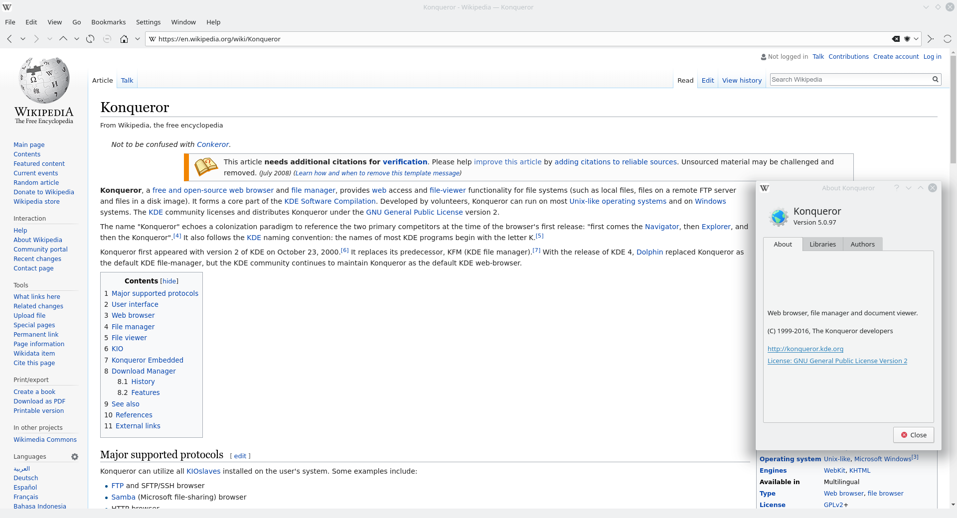 Screenshot of Konqueor 5.0.97 showing the Wikipedia page for Konqueror, running on Kubuntu 18.04